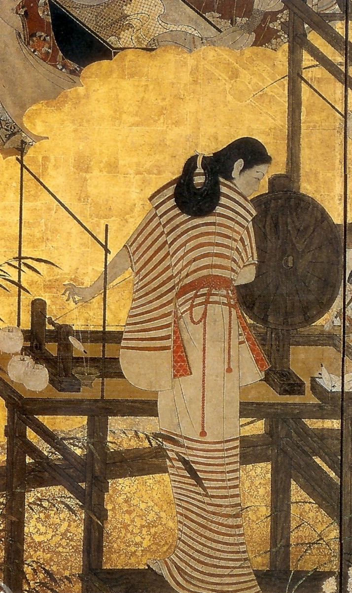 Weaver, detail of a screen